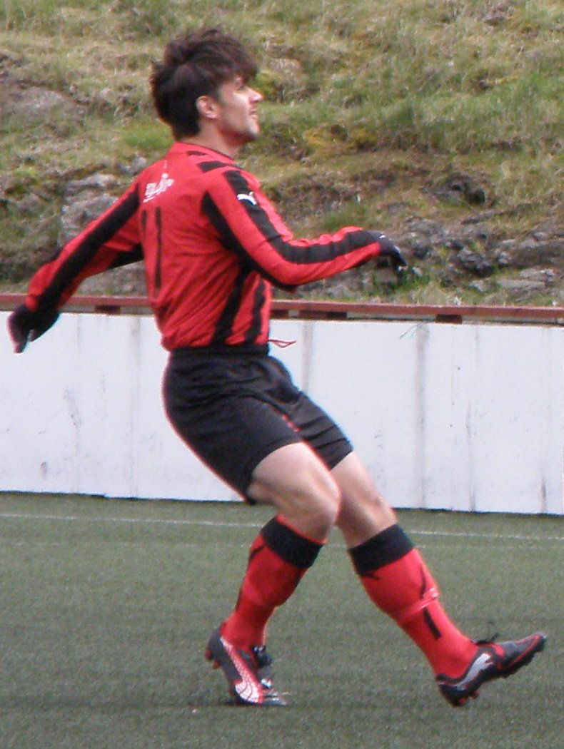 Levi Hanssen is a football player from the Faroe Islands. He currently (2010) plays for HB Tórshavn in the Faroese Premier League (Vodafonedeildin). He has also played a few matches for the Faroe Islands national team. This photo was taken on Eiðinum stadium in Vágur. Føroyskt: Levi Hanssen er føroyskur fótbóltsleikari. Hann spælir í løtuni (2010) við besta liðnum hjá HB. Hann hevur eisini spælt nakrir fáir dystir við føroyska A-landsliðnum. Myndin er tikin 29. mai 2010 vesturi á Eiðinum í Vági í Vodafone dystinum móti FC Suðuroy.